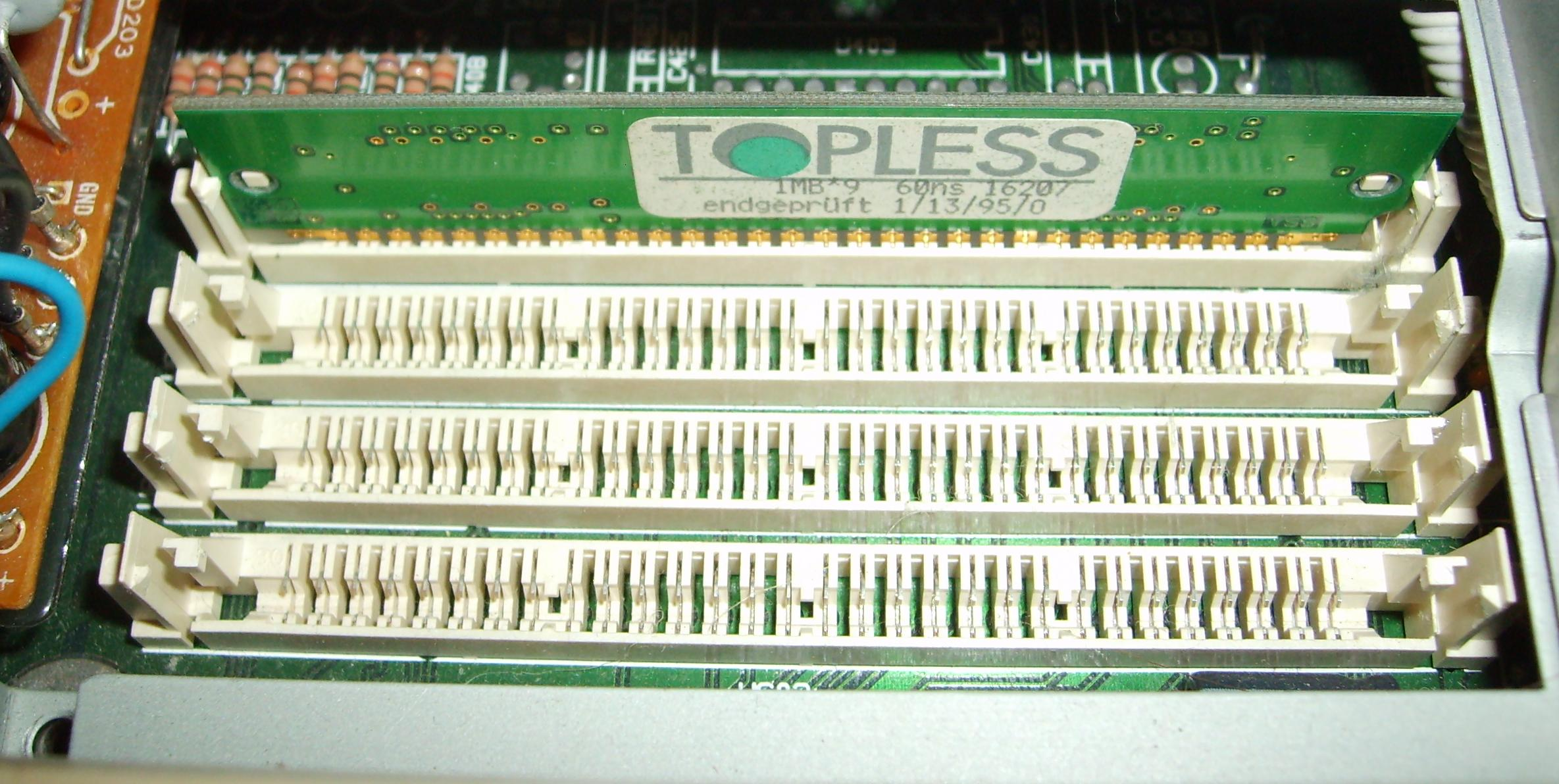 RAM slot (30 pin SIMM), part of my (very) old Atari STE motherboard.